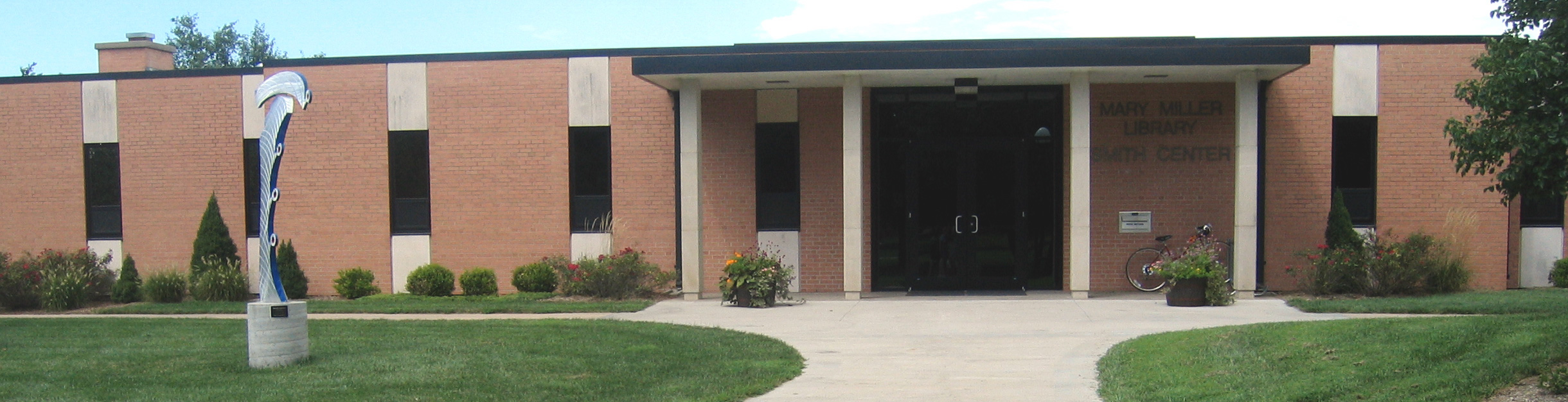 Mary Miller Library, Smith Center, Hesston College, Hesston Kansas